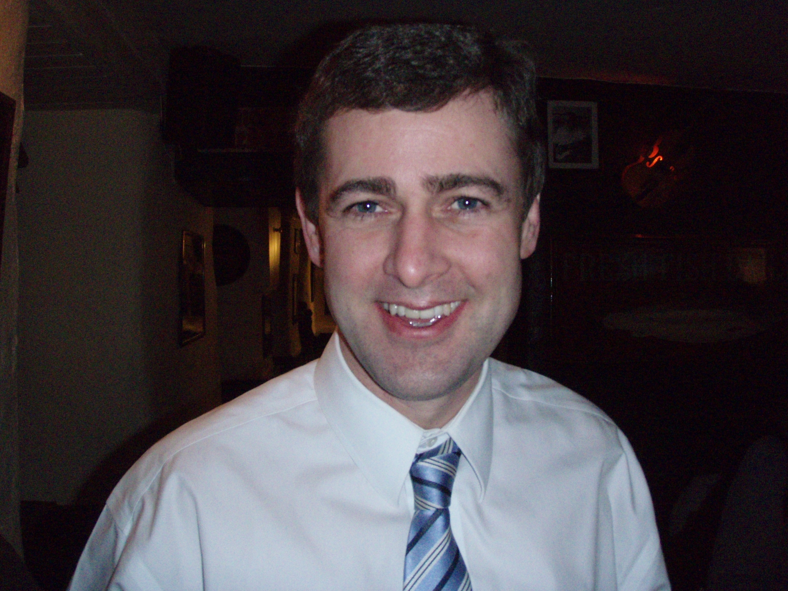 Senator Mark Daly in the The Blind Piper in Caherdaniel, County Kerry, Ireland.